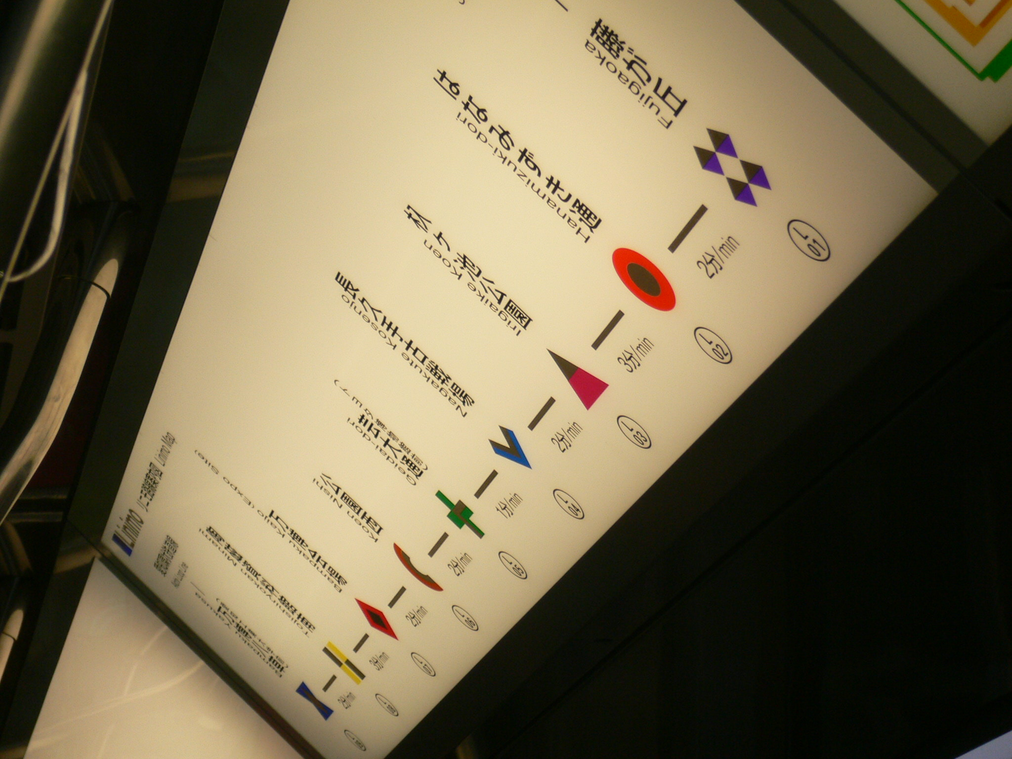 Linimo (Linimo)